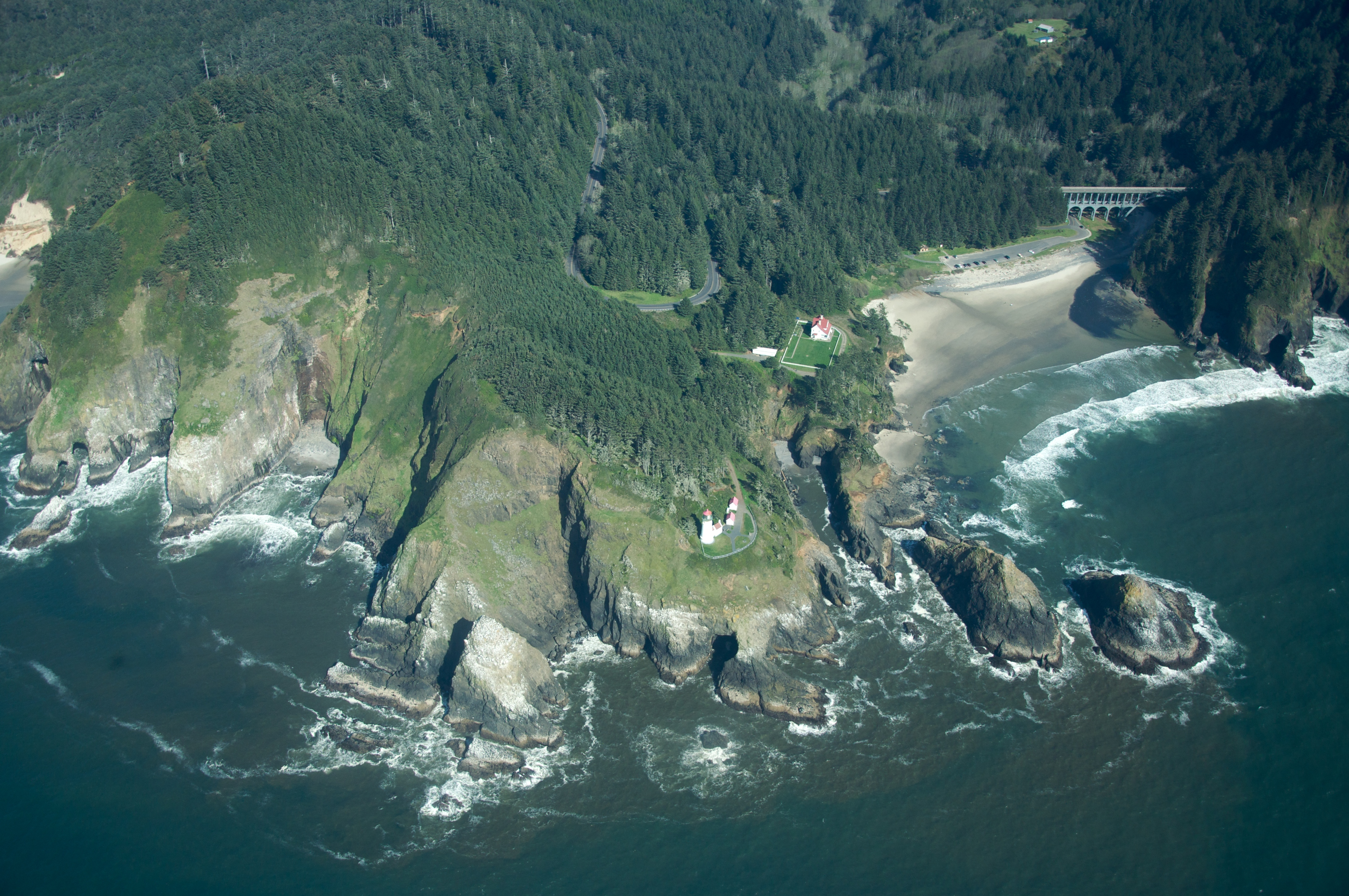 Aerial view of Heceta Head Light on the Oregon Coast, USA.